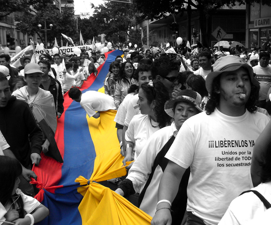 Millions of Colombians marching for the freedom of the people kidnapped by the FARC and the ELN. We want peace. You can read more about it here: [1] Quatre millions de colombiens ont manifesté afin de réclamer la libération des otages en Colombie [2] Millones de colombianos marcharon para exigir la liberación de aquellos secuestrados [3]